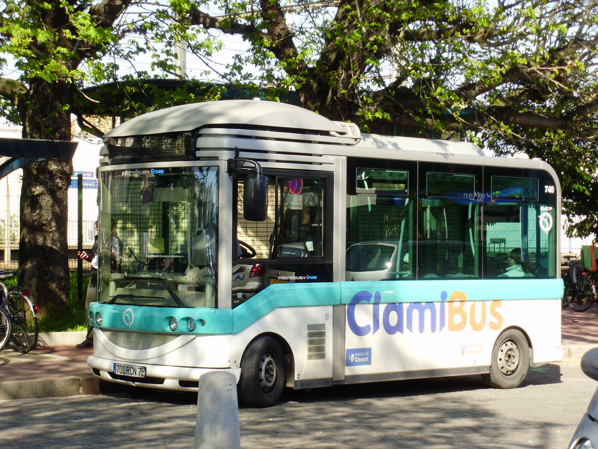 Bus of "Clamibus line", in Clamart, Hauts-de-Seine, France